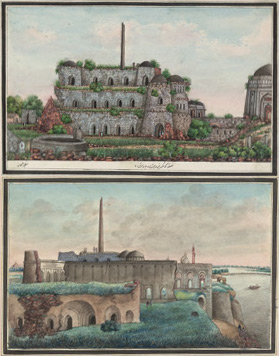 The Kotla of Firoz Shah with the Ashokan pillar viewed from the west, with the gateway of the adjacent mosque (top right), View from the south of the Kotla (bottom right)